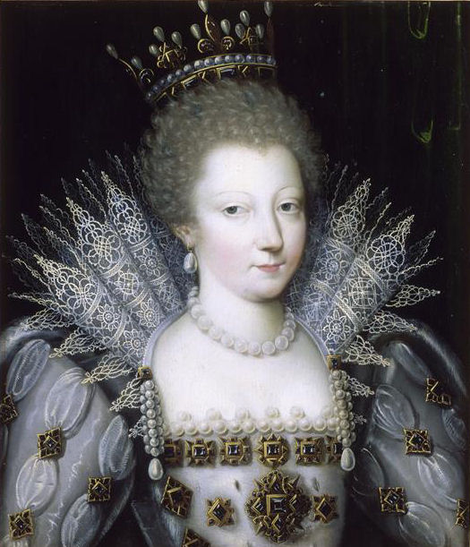 Portrait of Louise Marguerite of Lorraine, Princess of Conti